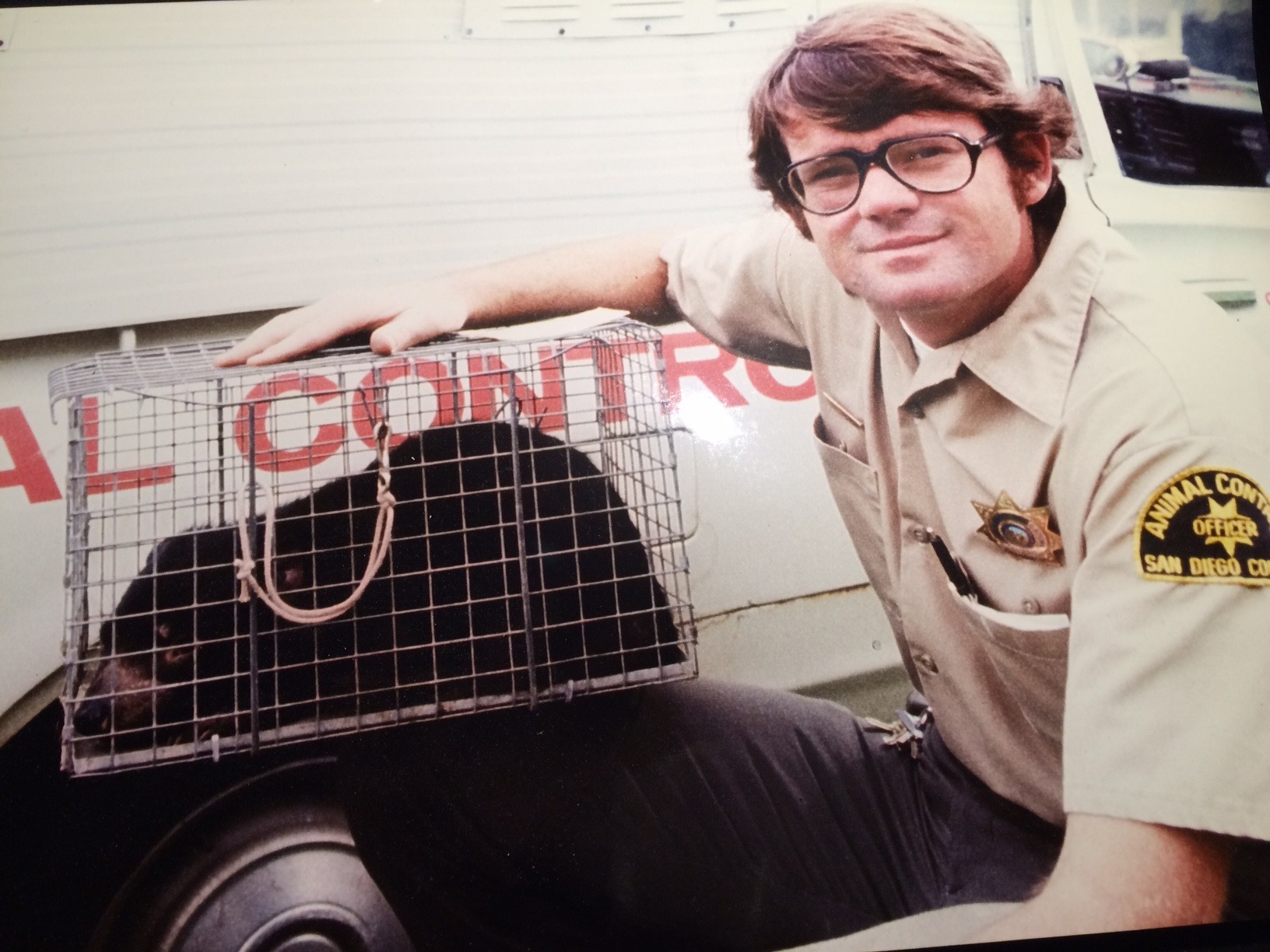 The Tasmanian devil displayed here by San Diego County Animal Control Officer Tom Van Wagner was found in a residential garage in south central San Diego City in 1977. The animal was subsequently returned tom the zoo.